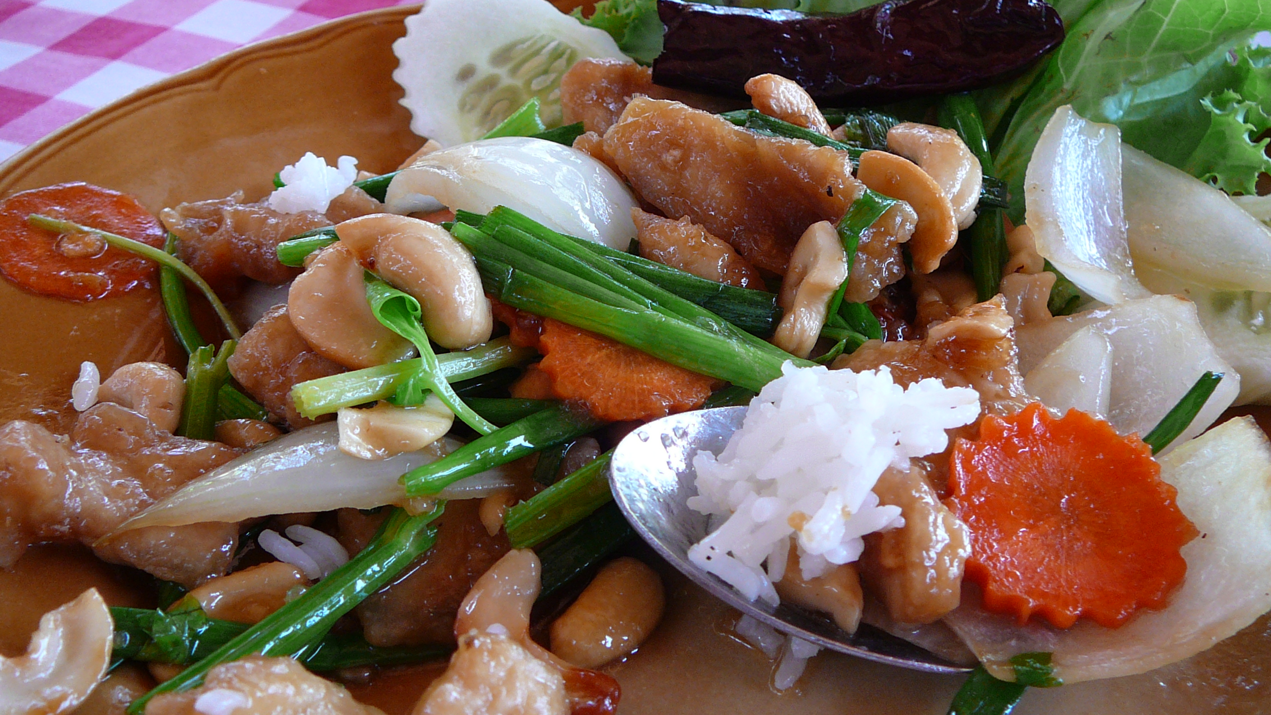 Cashew nuts and vegetables stir-fry pork